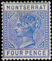 Stamp of Montserrat, 1880, 4 pence. See for details: Series: Queen Victoria Catalog codes: Michel MS 4, Stamp Number MS 4 Issued on: 1880 Emission: Definitive Perforation: 14 Printing: Typography Colors: Blue Face value: 4 d - British penny (old) Watermark: Crown and CC